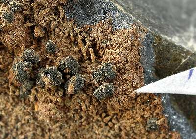 Toyohaite, Pirquitasite Locality: Oploca Vein System (Oploca mine), Pirquitas Ag-Sn Deposit, Rinconada Department, Jujuy, Argentina (Locality at ) Size: 9.7 x 8.0 x 5.8 cm. Toyohaite specimen featuring visible crystals to about 1 mm, clearly contrasted upon the sparkling sulfide matrix. This specimen has a small zone of analyzed pirquitasite - see arrow. Originally described from the Toyoha mine in Japan where it occurred in microscopic grains only. Associated with other rare minerals such as pirquitasite, cylindrite and fizelyite-ramdohrite. The mineral has a "pseudo-cubic" shape and looks like pyrrhotite. The mineral was microprobed and almost exactly corresponds to the end member composition. Ex. Dr. Werner Paar Collection.